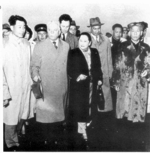 Soong Ching-ling(middle), Kliment Voroshilov(2nd left) and Liu Shaoqi(1st right)